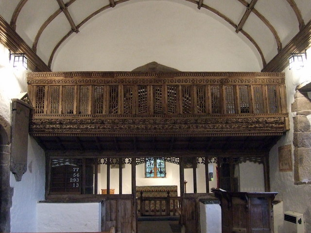 The rood screen at Partrishow/Patricio The tiny church has many highly unusual features and this C16 screen in front of the rood loft is perhaps the most impressive. It is carved from Irish oak, and depicts two dragons among the leaves, fruit and flowers that are carved with lace-like intricacy. The remoteness of the church protected it from destruction by Reformation zealots. The entrance to the stone steps leading to the gallery are on the left, partly visible here.